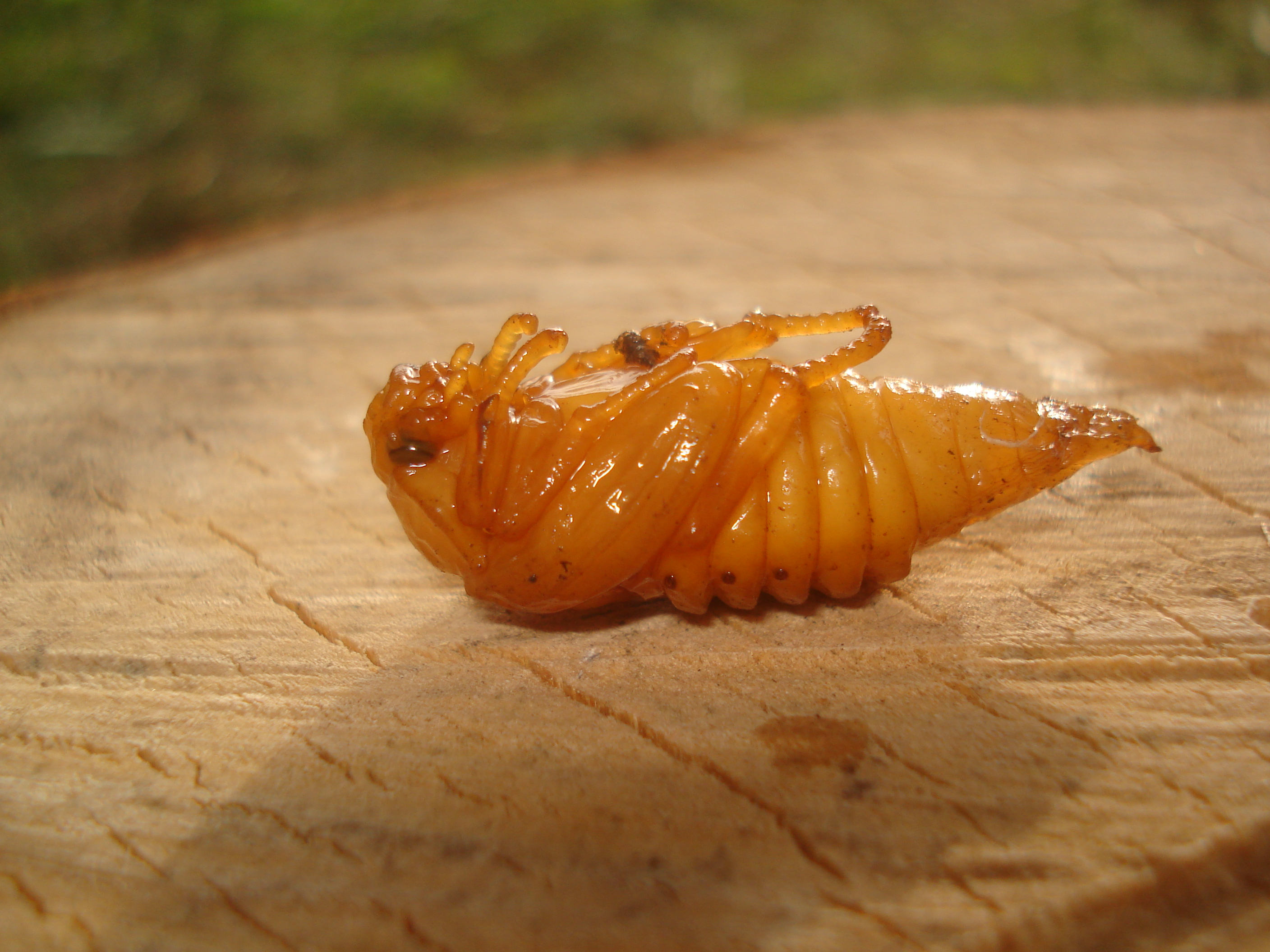 The cockchafer (colloquially called may bug, billy witch, or spang beetle, particularly in East Anglia) (Melolontha melolontha)